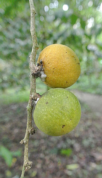 A tree known as Puma Muyu of the western Amazon and adjacent uplands. Photo from Jatun Sacha Gardens, Ecuador.